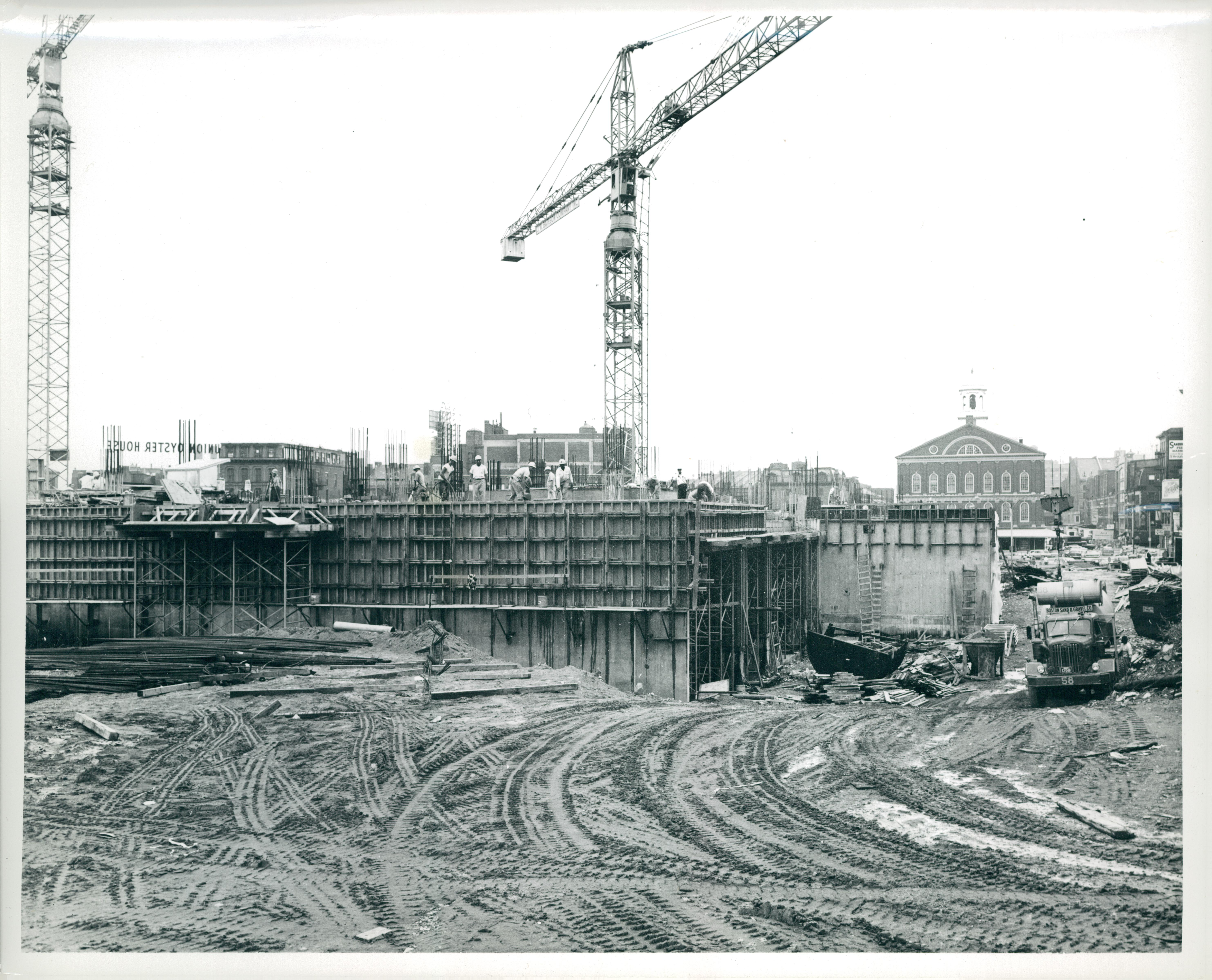 Title: City Hall area construction Creator: Boston Redevelopment Authority Date: circa 1964-1968 Source: Government Center Urban Renewal project, Boston Redevelopment Authority photographs, Collection # 4010.001 File name: R35_0081 Rights: Copyright City of Boston Citation: Boston Redevelopment Authority photographs, Collection # 4010.001, City of Boston Archives, Boston